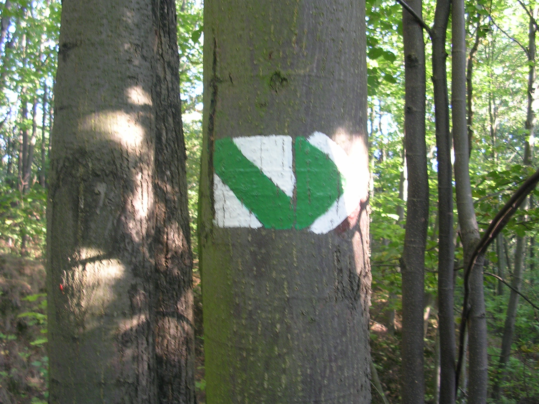 Sign of educational trail. Prague, Troja.